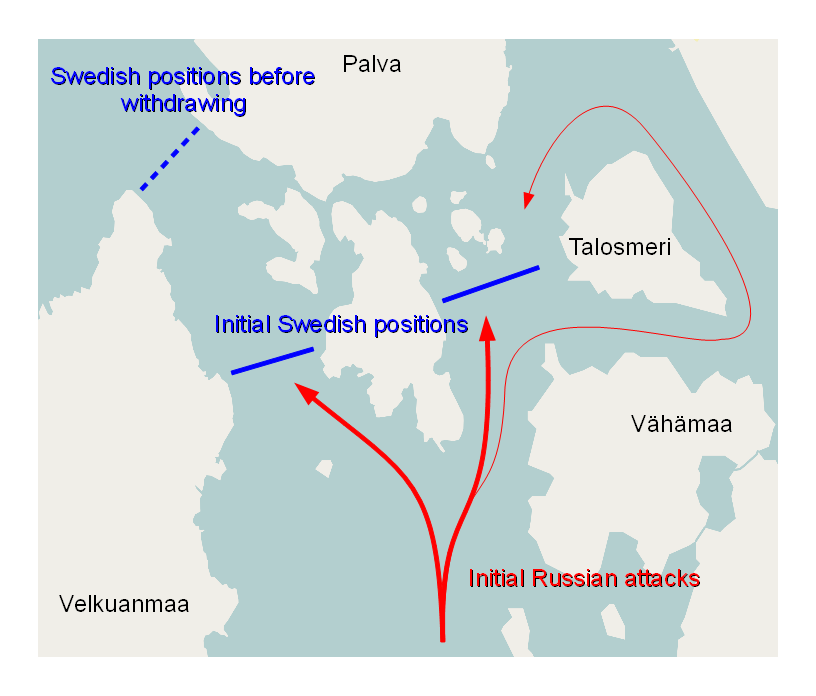 Map showing the initial actions of the battle of Palva sund 18 September 1808